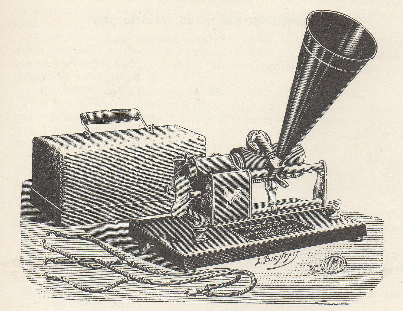 A Pathé Frères cylinder phonograph, one of the earliest Pathé-manufactured models. The model design closely resembles the Columbia model B ("Eagle") phonograph, which it was based on. Taken from a facsimile reprint.